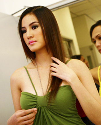 Jade Lopez at her Dressing room.